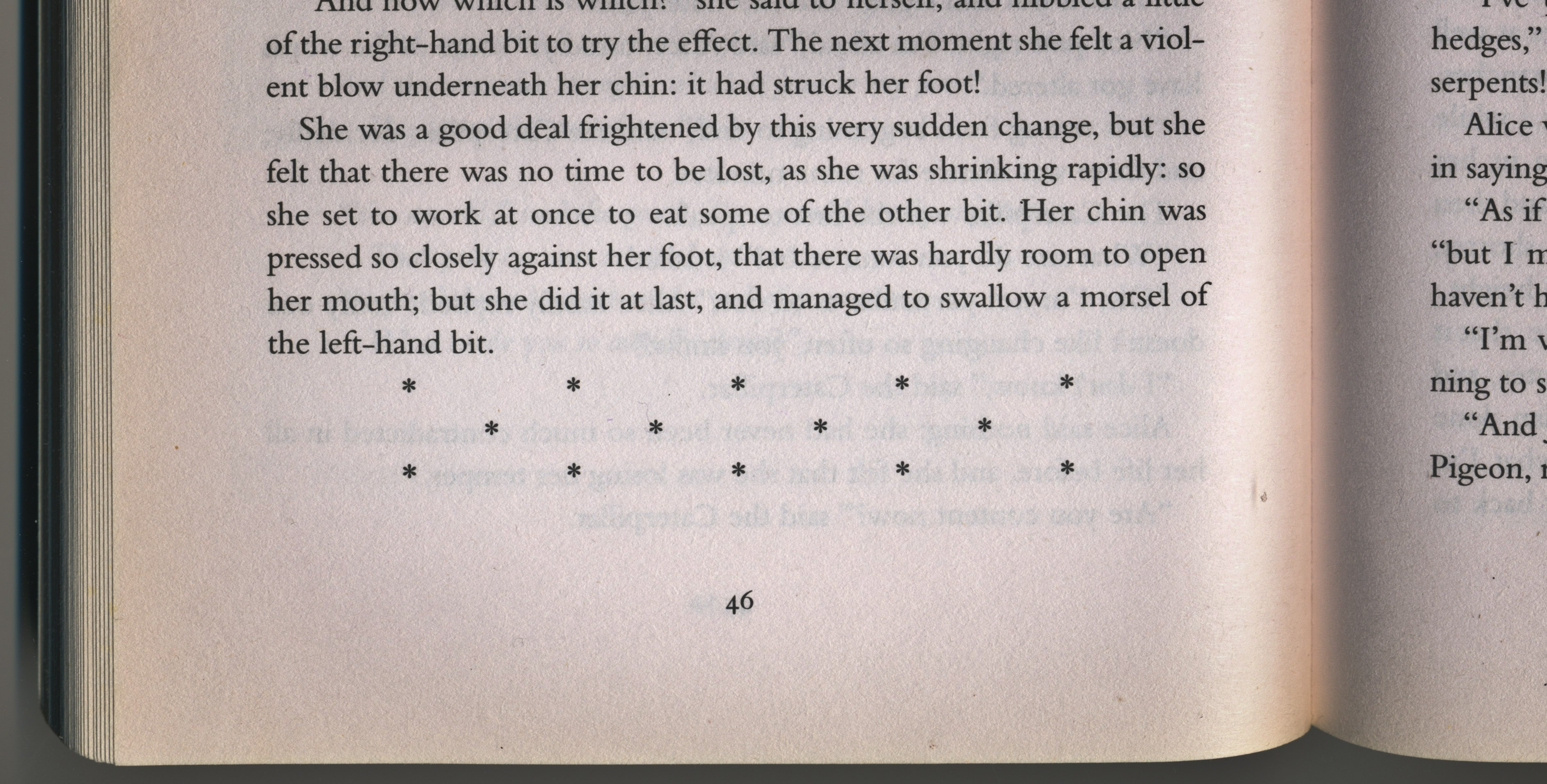 The book Alice in Wonderland (1865), opened to Chapter 5, page 46, to illustrate a section break. Alice in Wonderland was first published in 1865 and is now public domain. The complete text of the book is available on Wikisource.